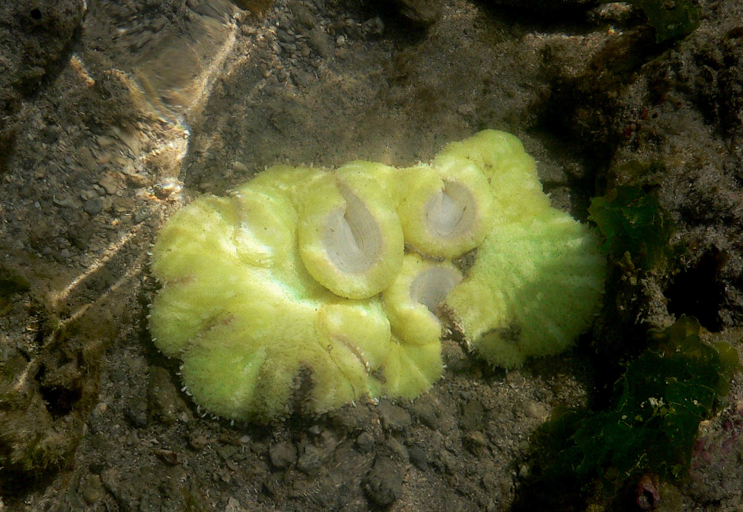 Yellow Carpet sea Anemone at Pirotan Island